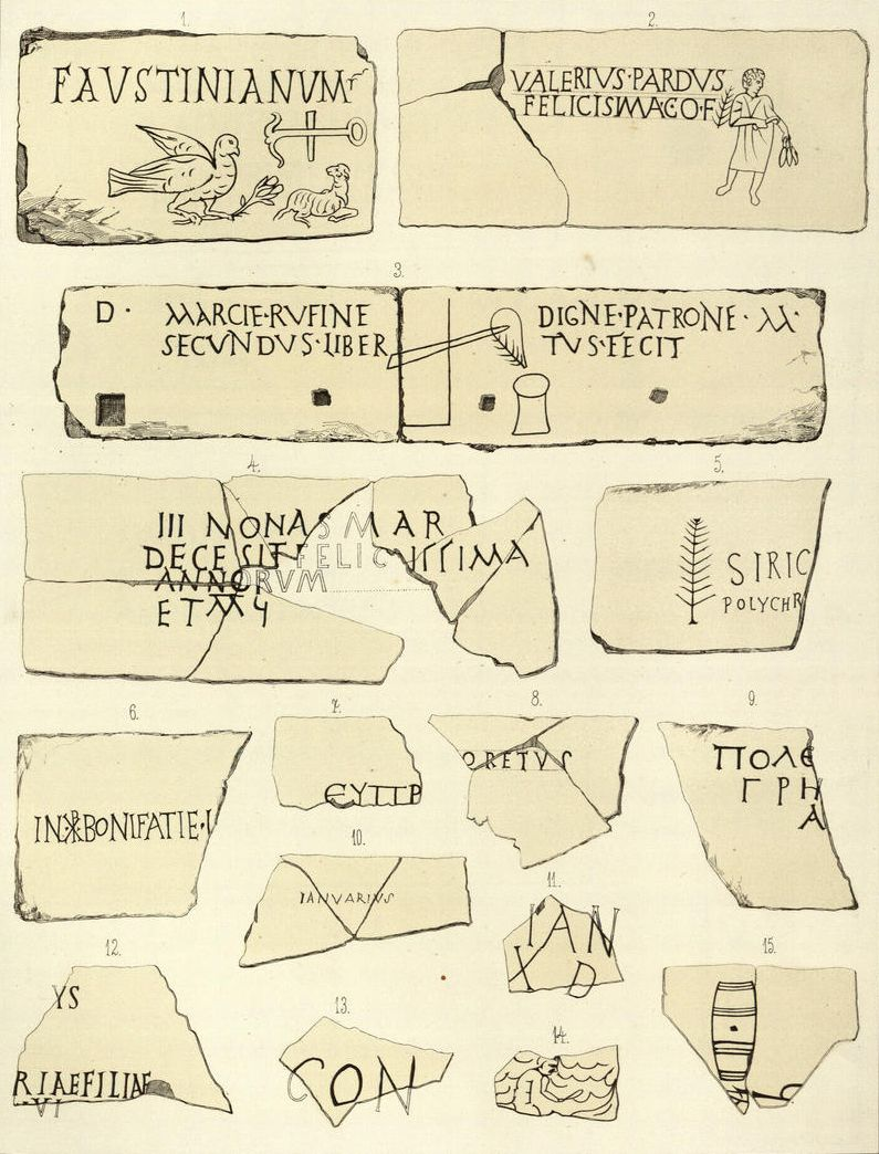 Table from catacombes of Rome (La Roma sotterranea cristiana (Band 1, Tafeln) Rom, 1864)